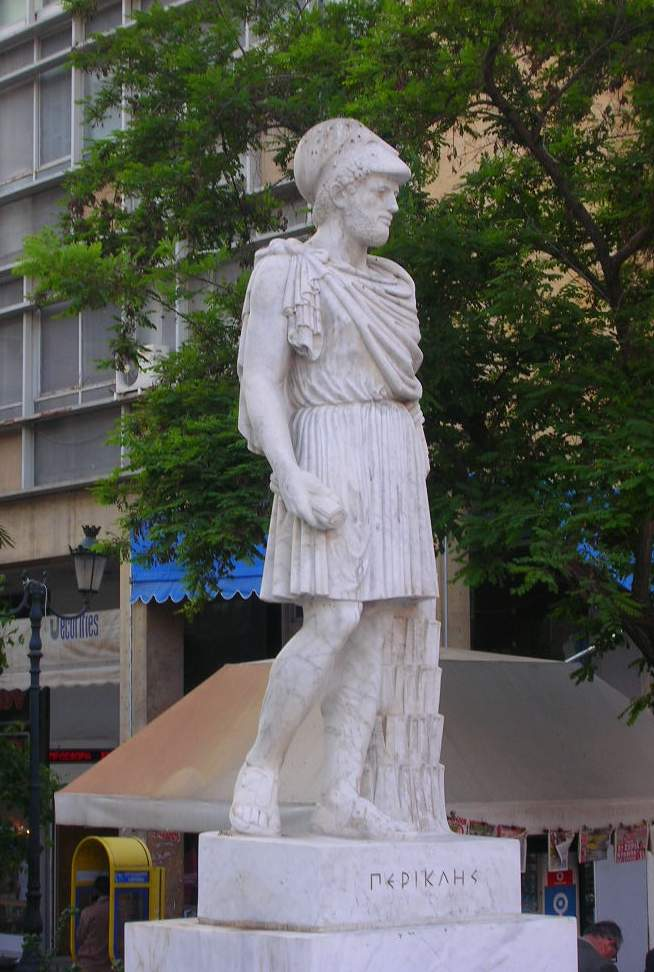 Monument of Periklis in Athens